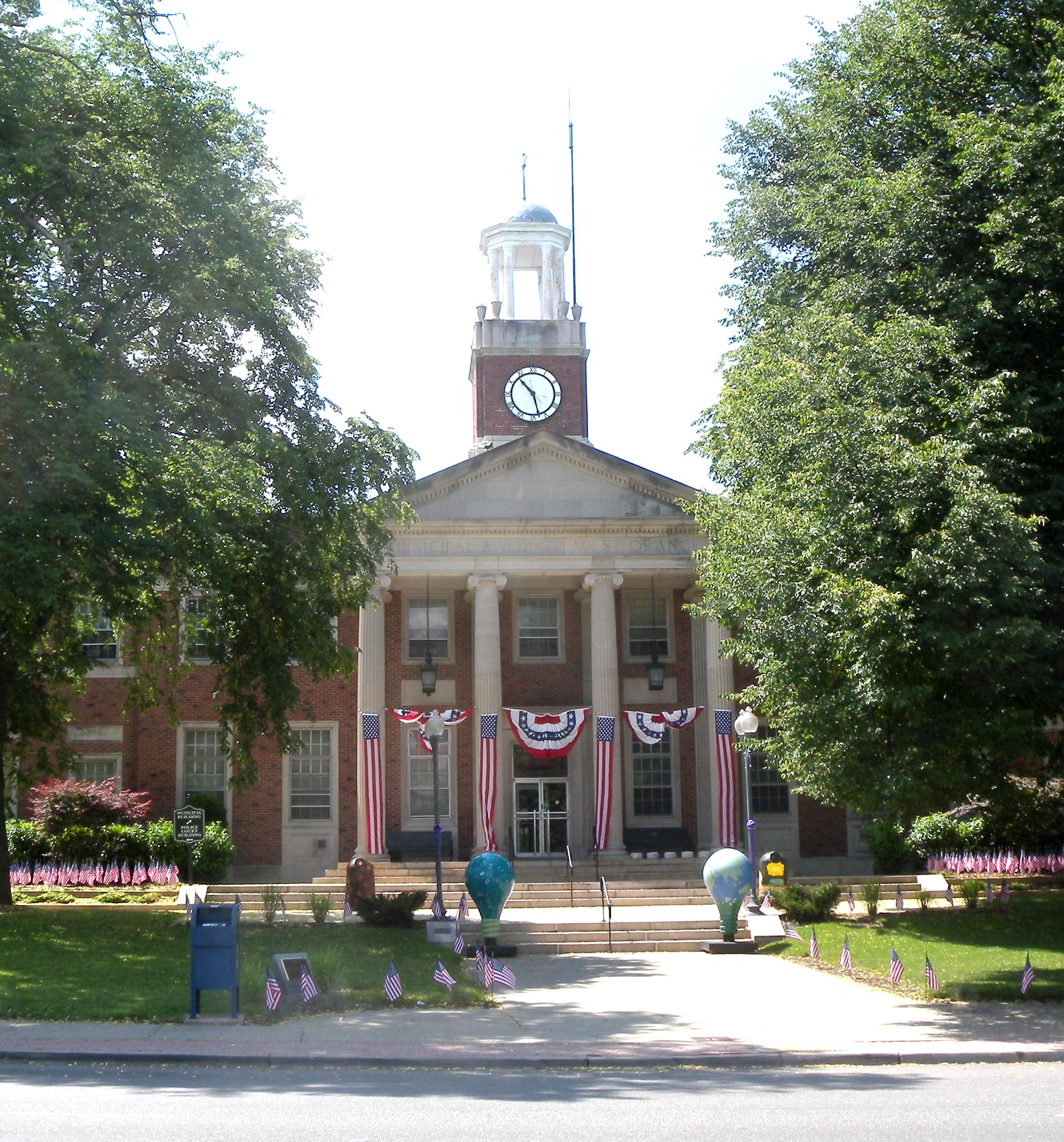 Looking west at West Orange, New Jersey Municipal Building on a sunny midday.